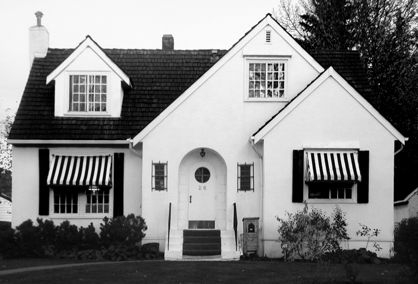 House with striped awnings, Edmonton, Alberta, Canada.